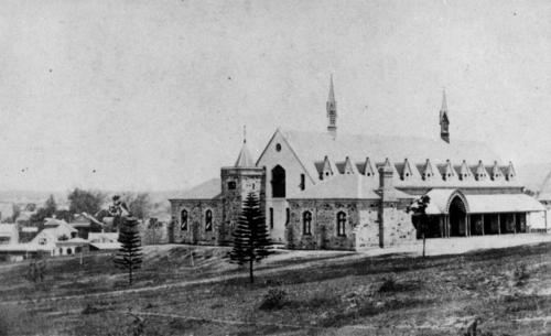 The original Brisbane Grammar School, in Roma, Street, ca.1875 Image title:Brisbane Grammar School, ca. 1875 Description:"View of the original Brisbane Grammar School in Roma Street, ca.1875. Prince Alfred laid the Foundation Stone on the 29th February, 1868 and the school was opened on the 1st February,1869. The building was designed by Benjamin Backhouse. It served as Railways Department Offices after 1881".